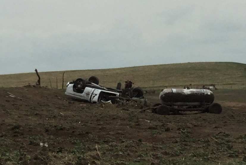 An overturned pickup truck that was thrown 300 yards by an EF3 tornado near Tescott, Kansas.